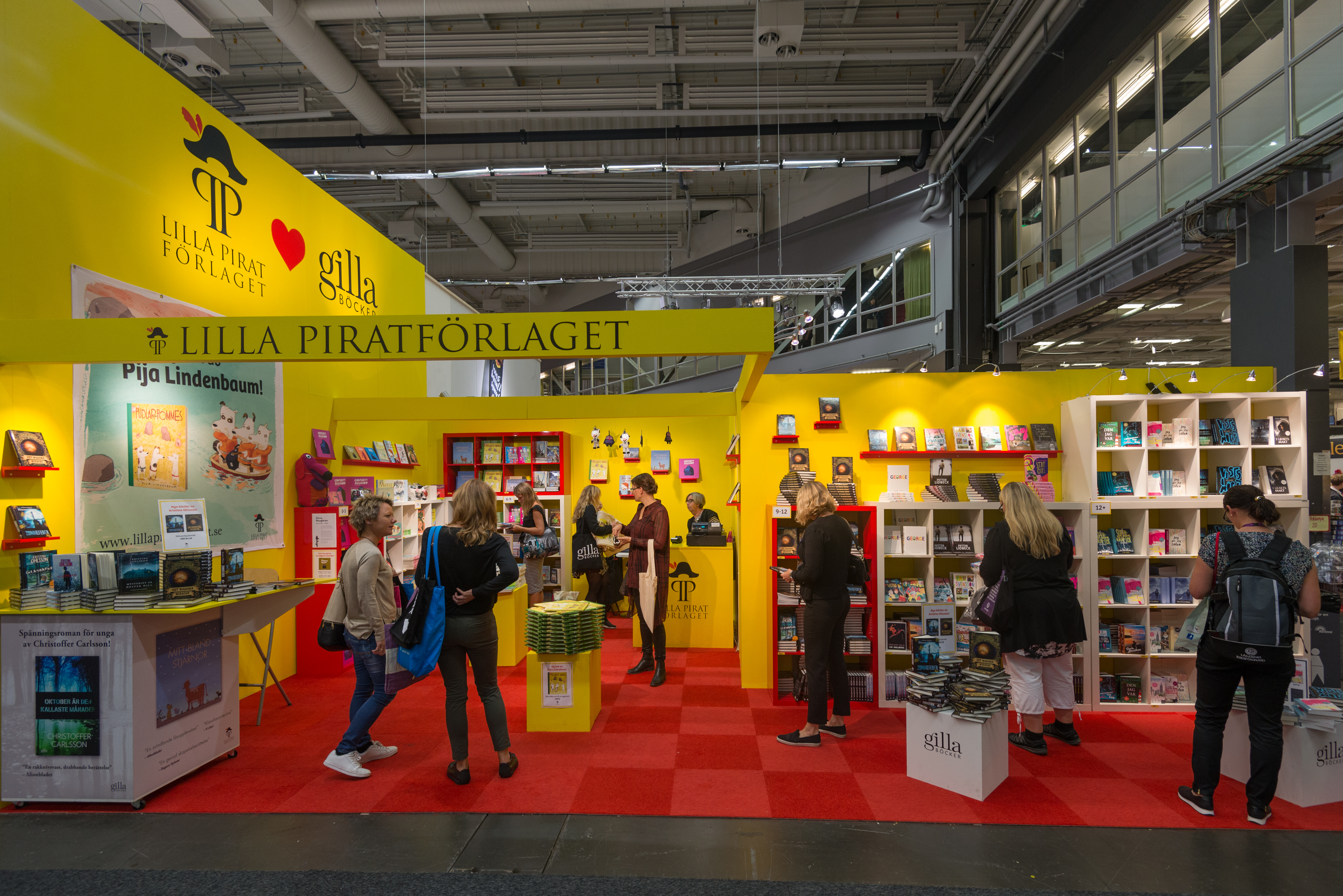 Göteborg Book Fair